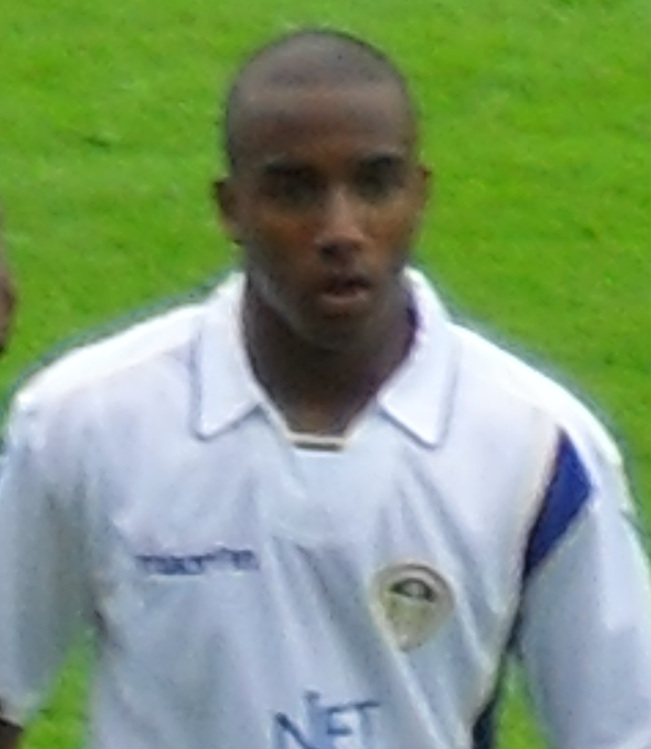 Fabian Delph